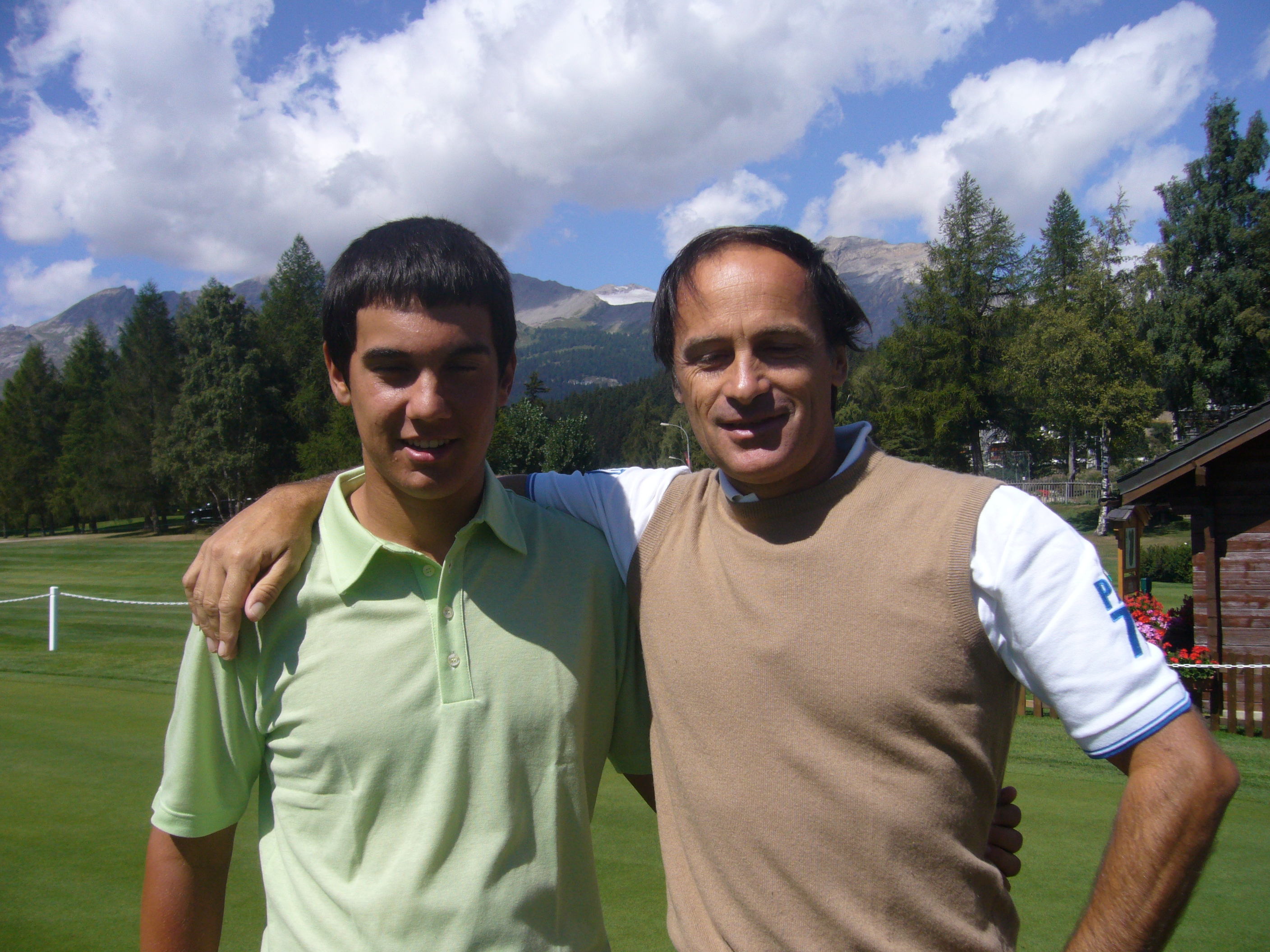 Matteo Manassero, winner of British Amateur, and his coach Alberto Binaghi